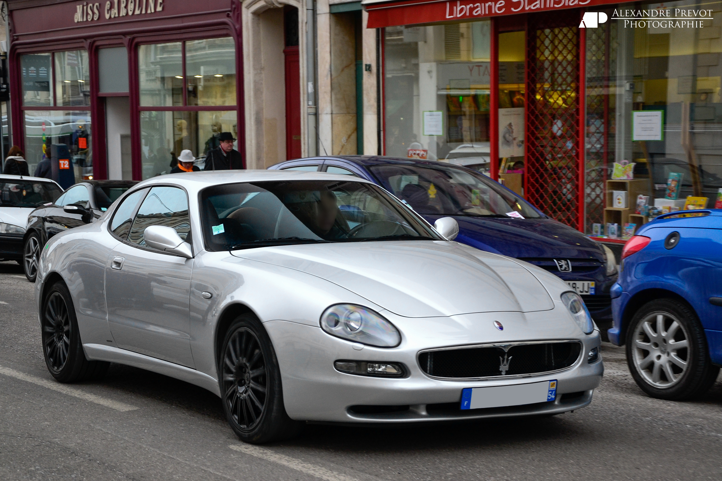 Una Maserati Coupé 4200 argento